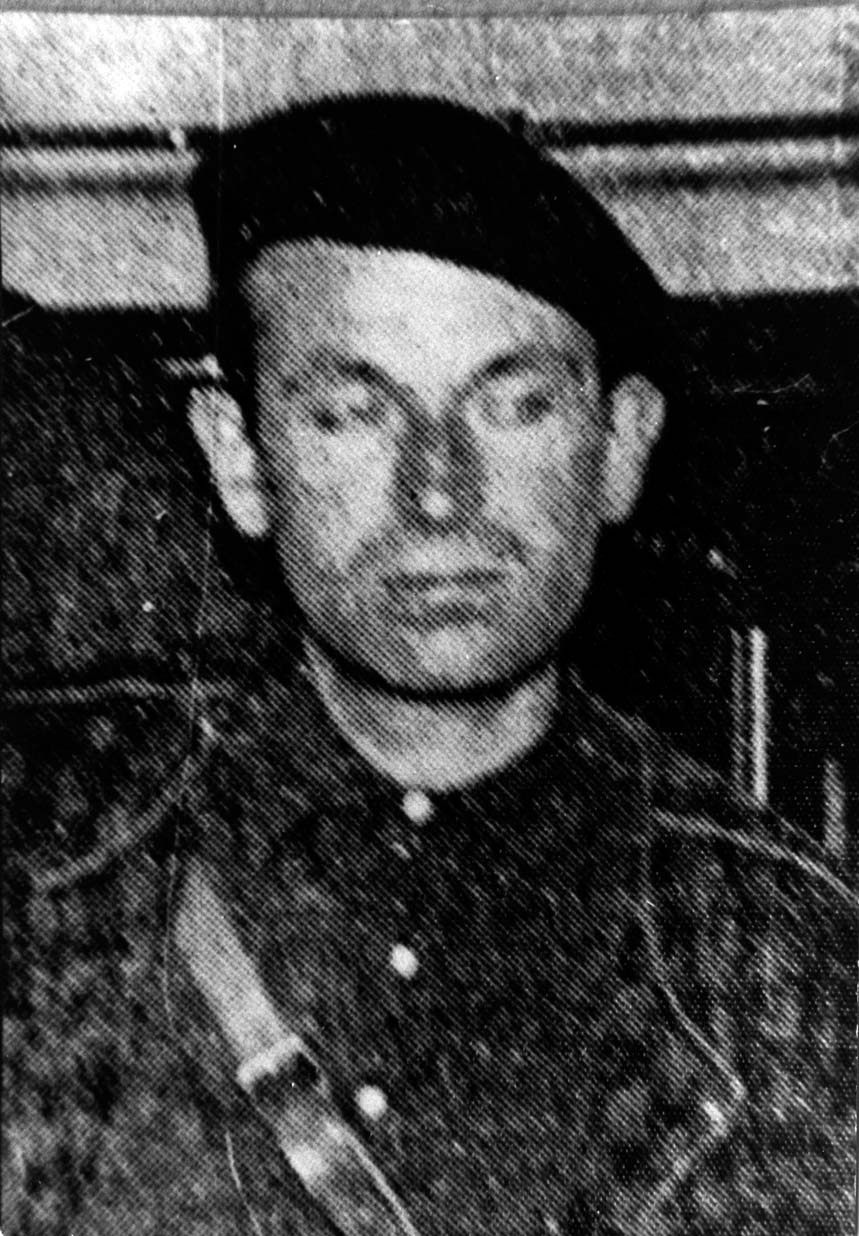 Estepan Urkiaga, Lauaxeta